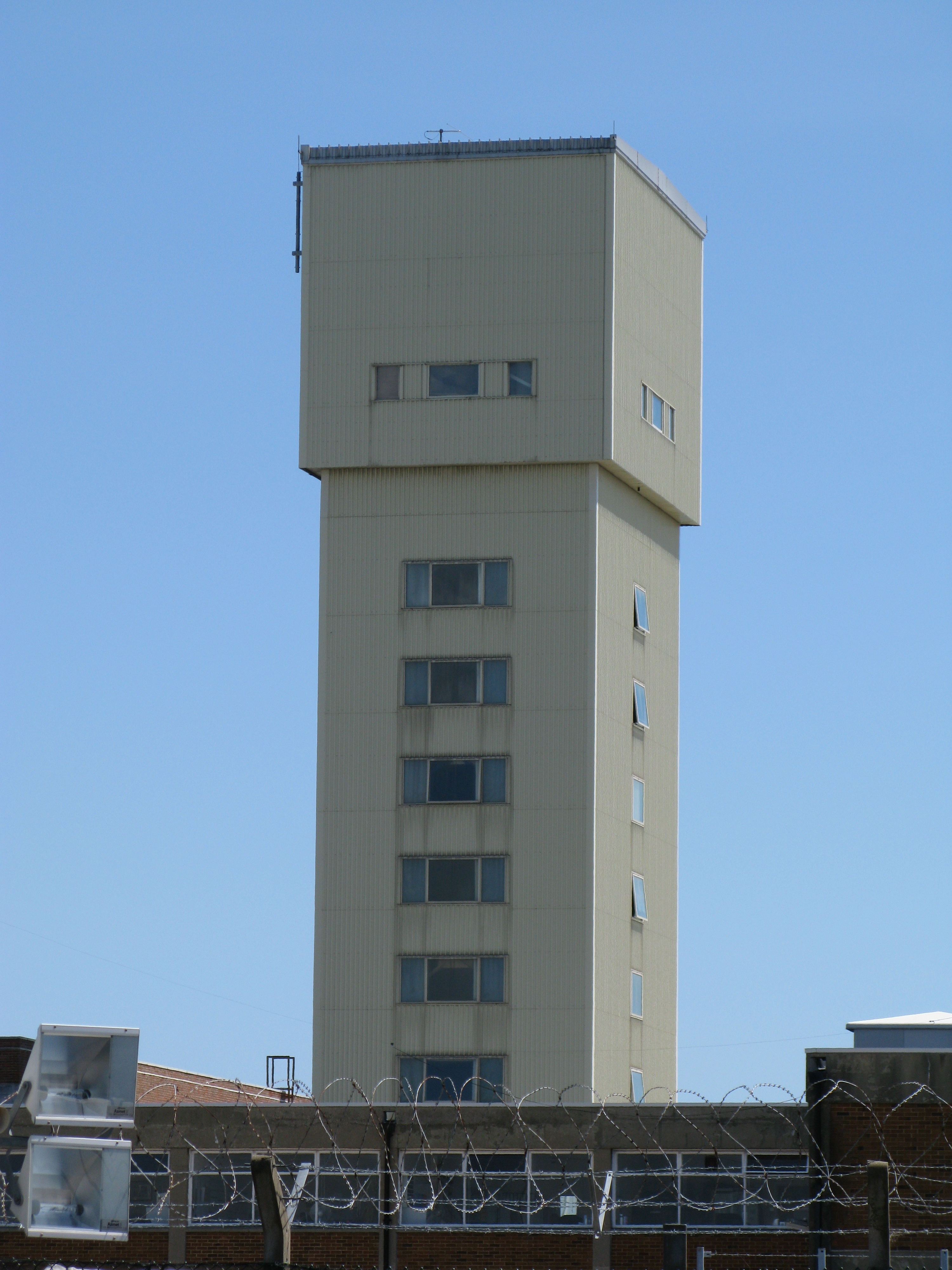 Photo of the outside of the Submarine Escape Training Tower in gosport